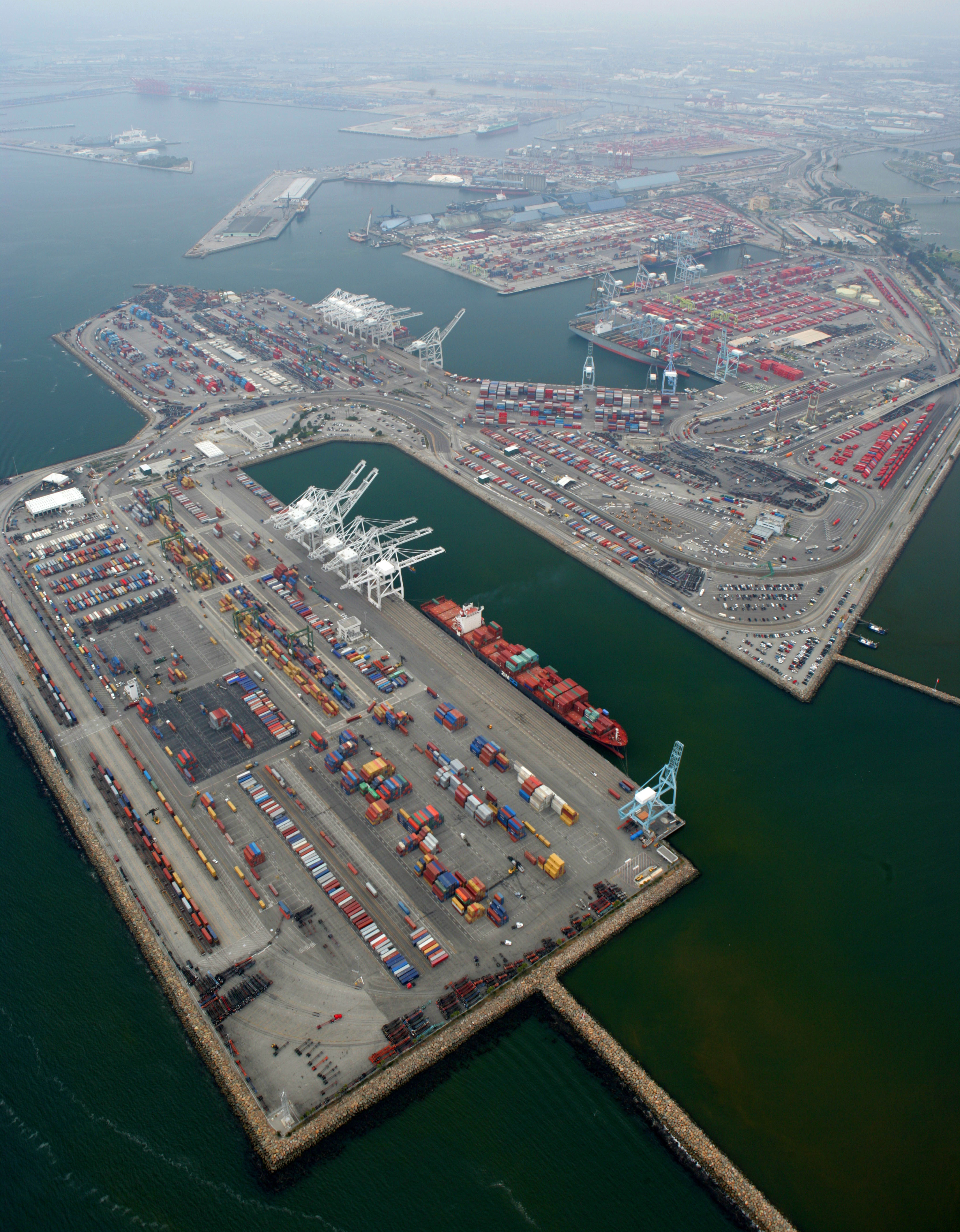 Long Beach container port. Original description by CBP: "Port of Long Beach CA."